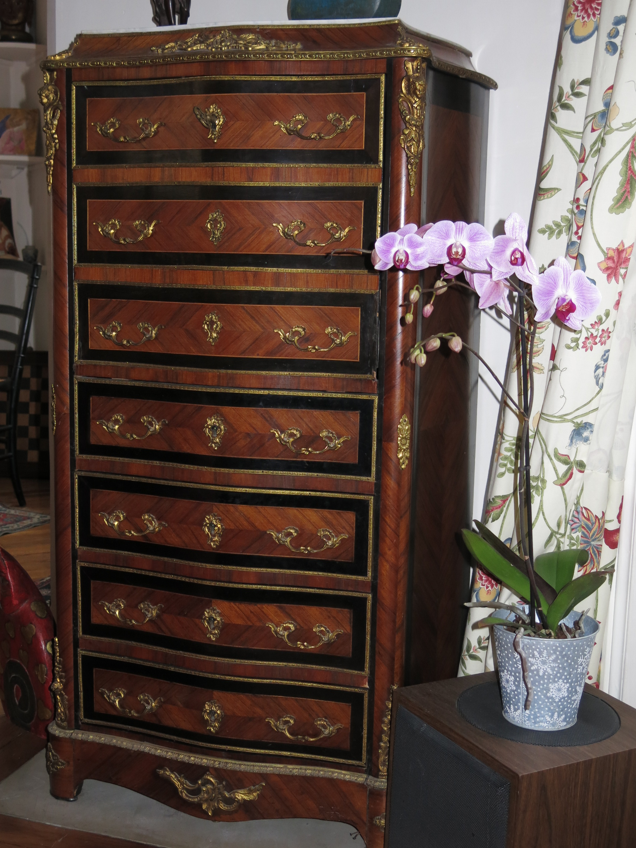 Furniture of French type named "semainier" (in French, semaine = week). There are 7 drawers, one for every day of the week, to put clothing and especially underwear of the day.